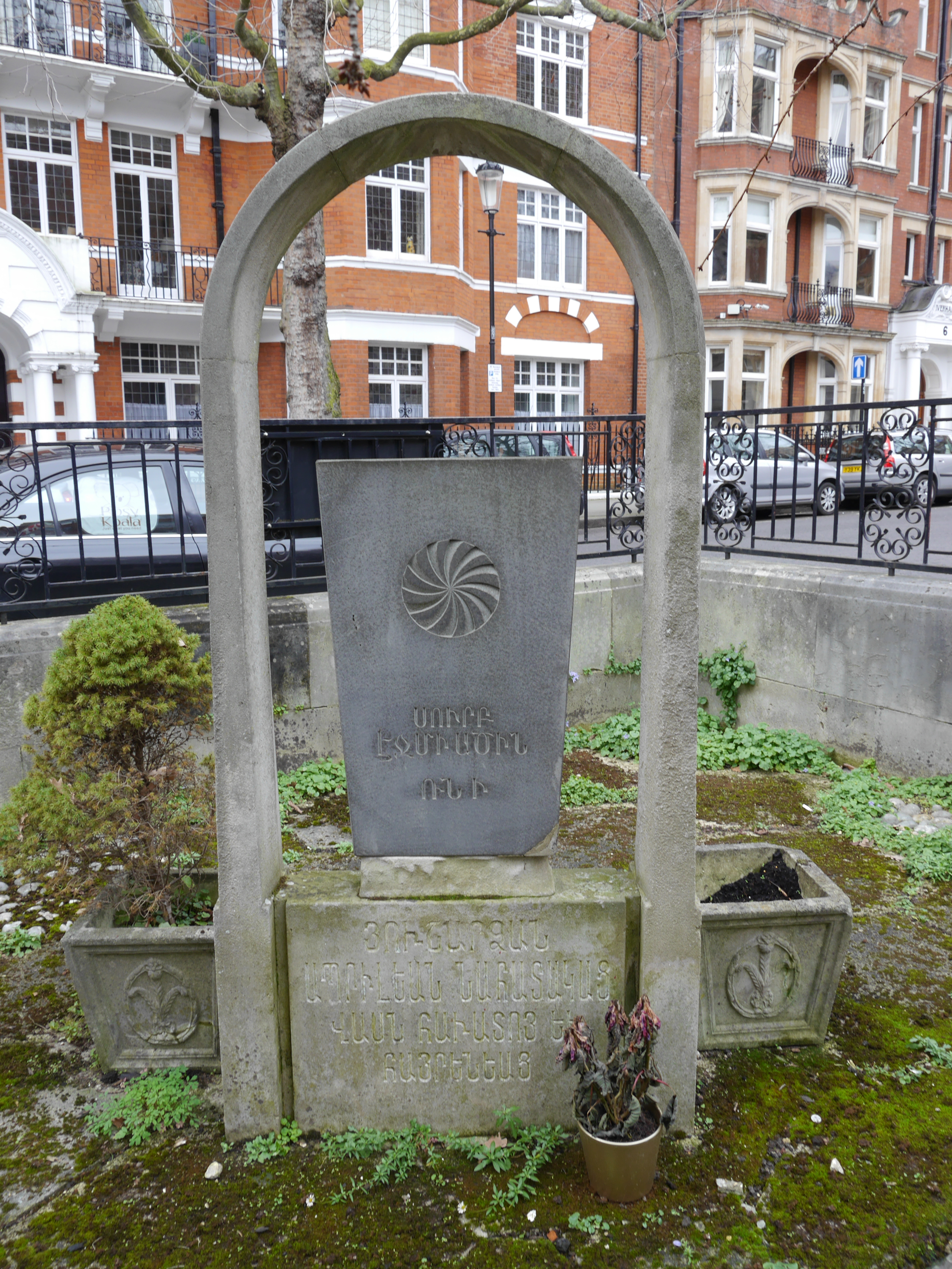 Memorial to the victims of the 1915 Armenian Genocide in the churchyard of St Sarkis Armenian Church, Kensington. Photographed in January 2015. This image shows detail of the eastern face of the memorial, with inscriptions in Armenian.